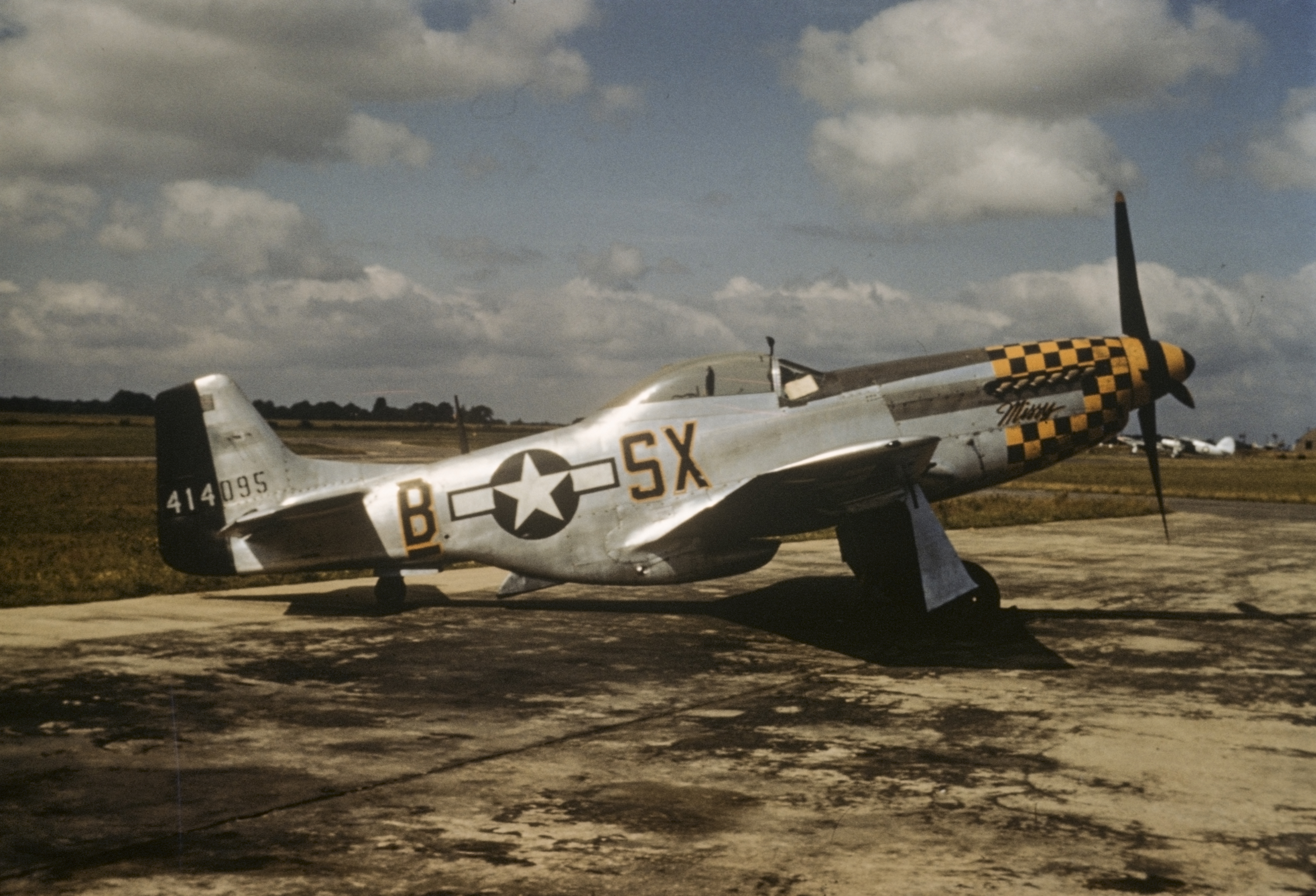 P-51 Mustang (44-14095) of the 353rd Fighter Group flown by Lieutenant James G Bartley